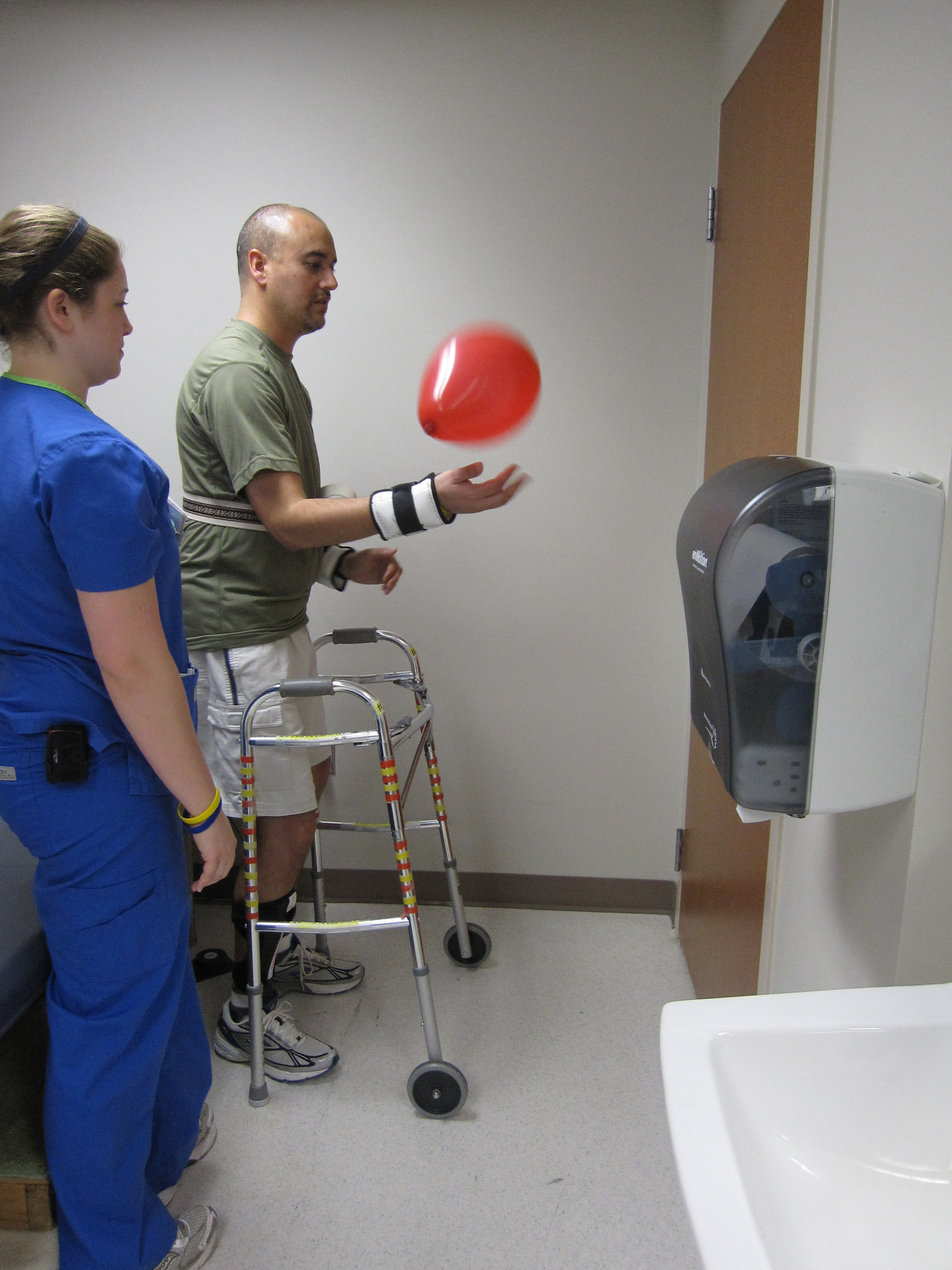 Occupational Therapy (OT)